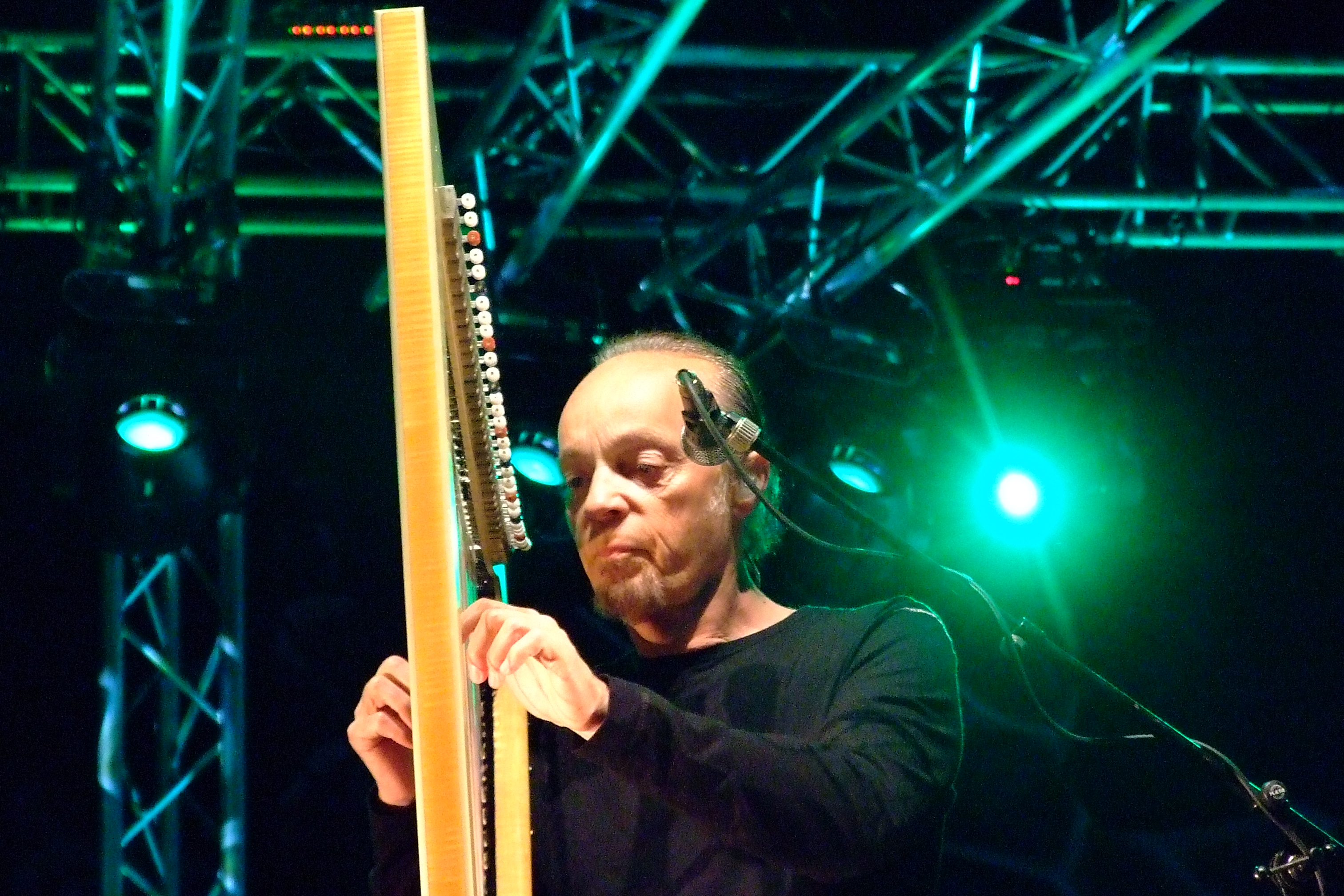 Alan Stivell live at the Bardentreffen in Nuremberg, Germany.